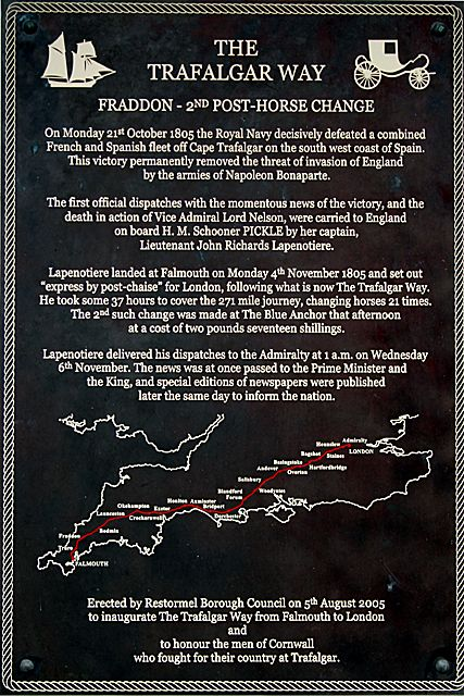 The Trafalgar Way. Blue Anchor Inn, Fraddon Commemorative plaque for the bi-centennial re-enactment of Lieutenant Lapenotiere journey from Falmouth to London with news of victory at Trafalgar.